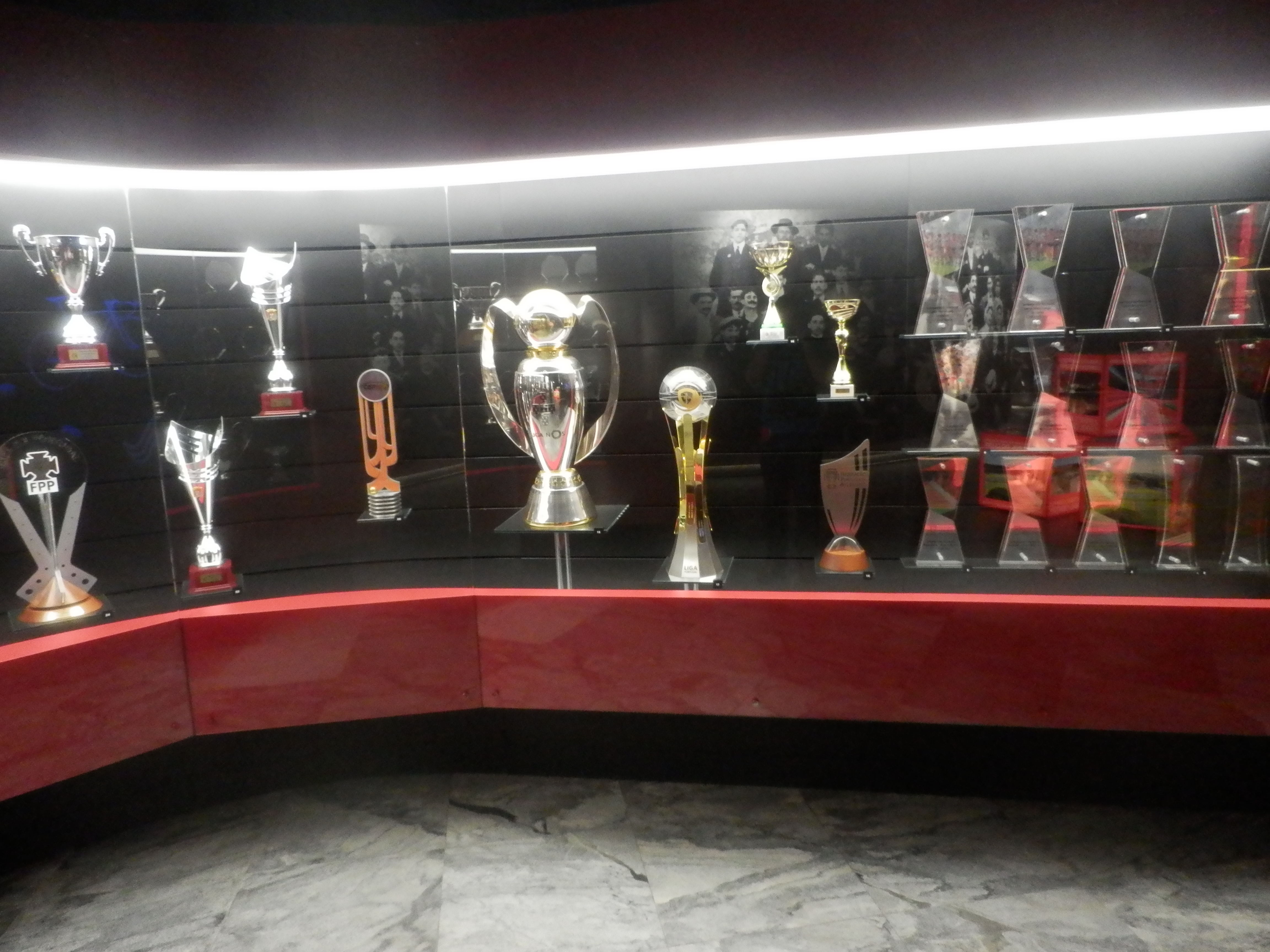 Athletics and football titles won in 2014-15